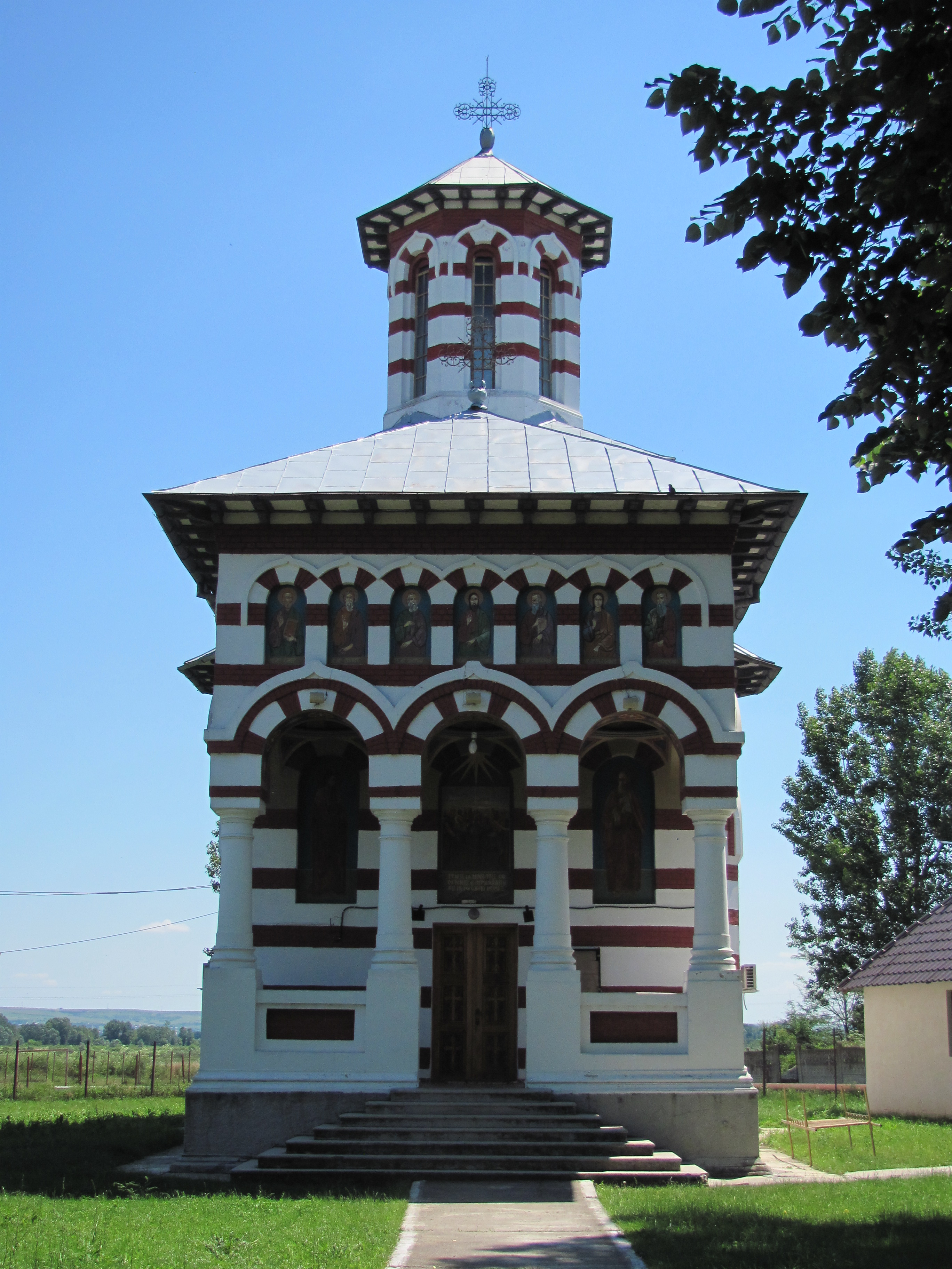 Orthodox church in Cotofenii din Dos, Romania